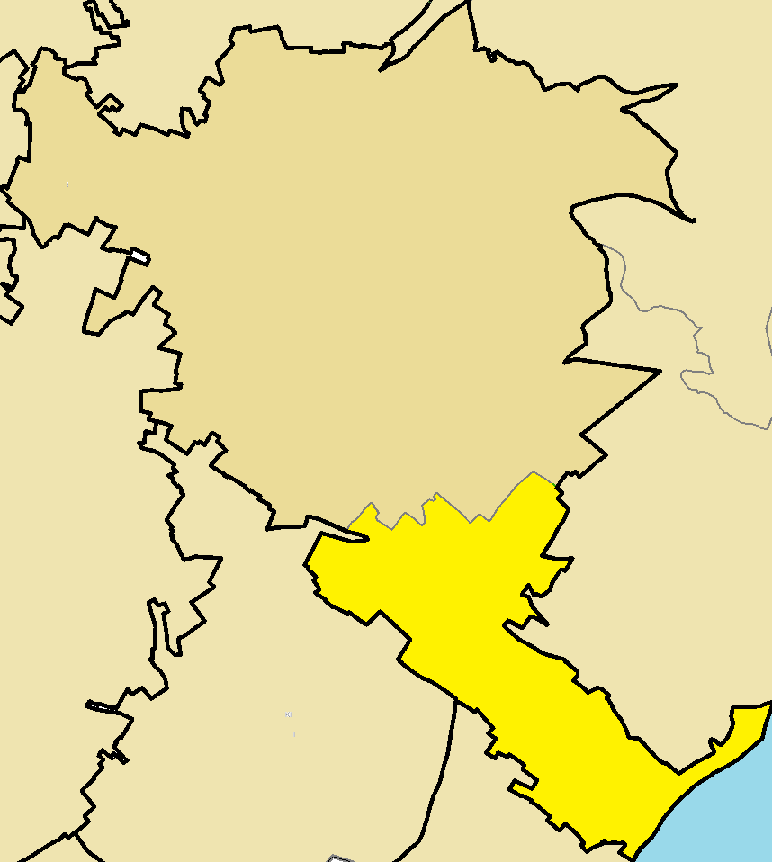 Meneou in Dromolaxia-Meneou Municipality.